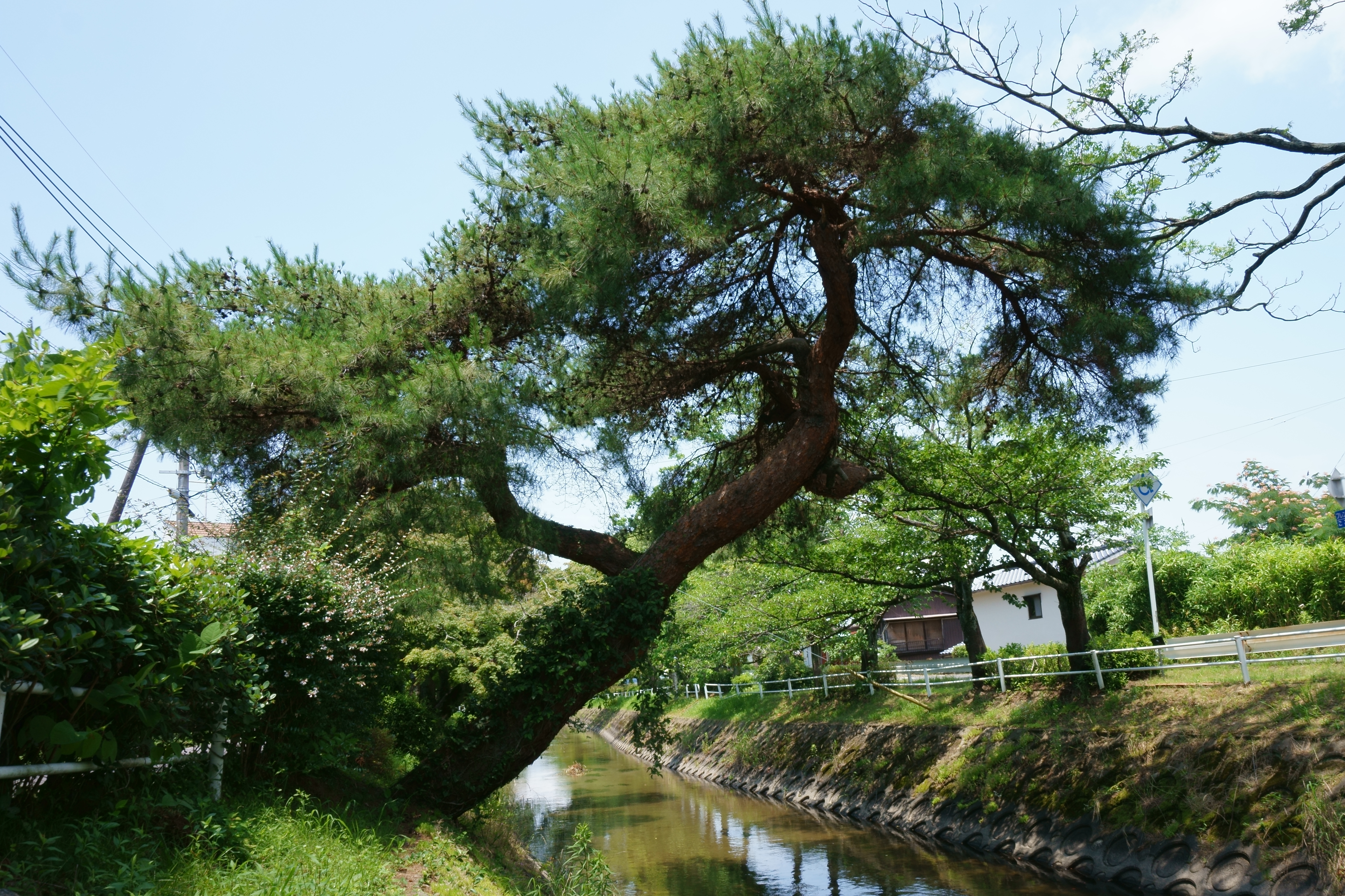 Japanese red Pine (Pinus densiflora) tree at side of Tafuse River near Shin'aoki-bashi Bridge in Saga city, Saga prefecture, Japan.